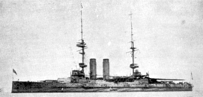 HMS Albemarle was a Duncan-class battleship of the Royal Navy, launched in 1901.